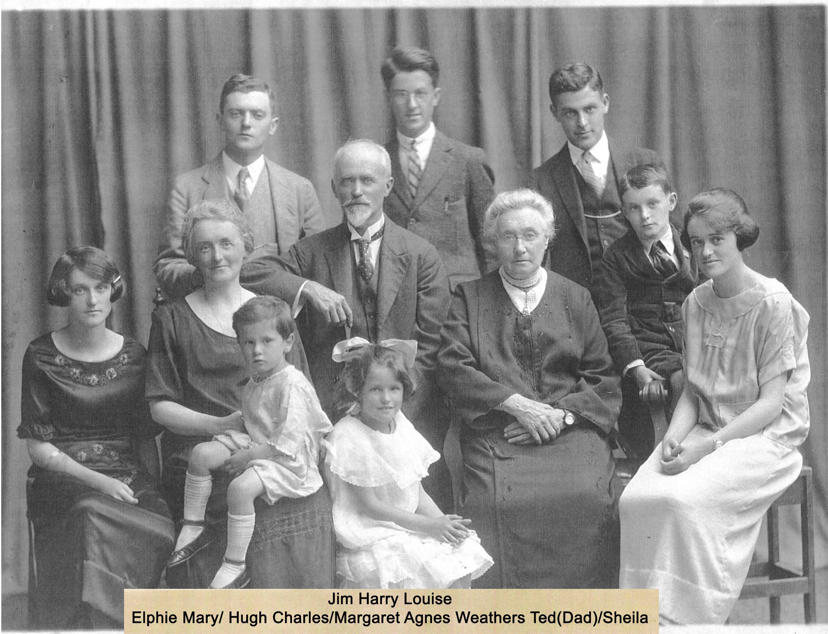 Charles O'Neill Conroy, wife Mary Agnes (nee Weathers) and the O'Neill Conroys. Edward (numerous) and Hugh leave surviving male issue.